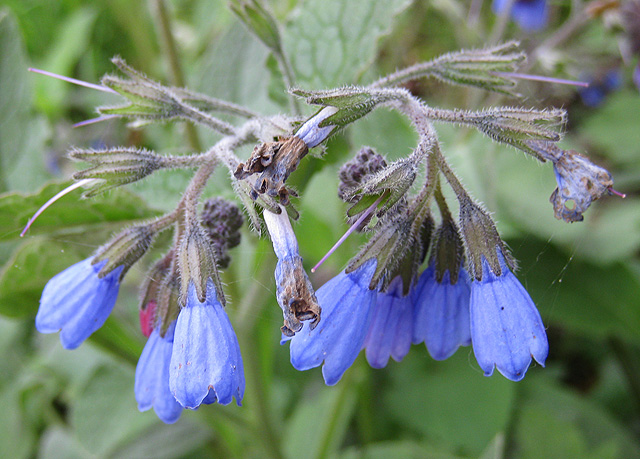 Blue comfrey Symphytum caucasicum - growing in the semi-shade at the end of a driveway between the twin lakes.